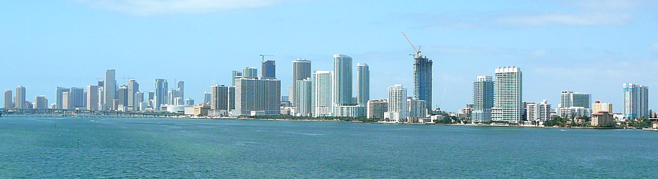 Digital photo taken by Marc Averette. The Downtown Miami skyline as seen from I-195 5/16/2008